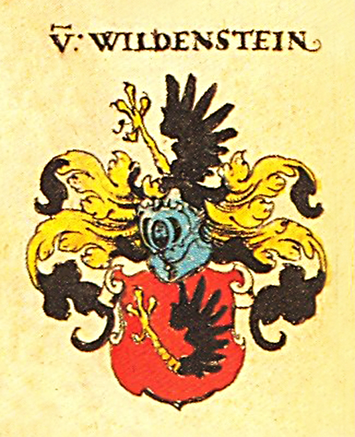 Coat of Arms of Wildenstein (Styria)